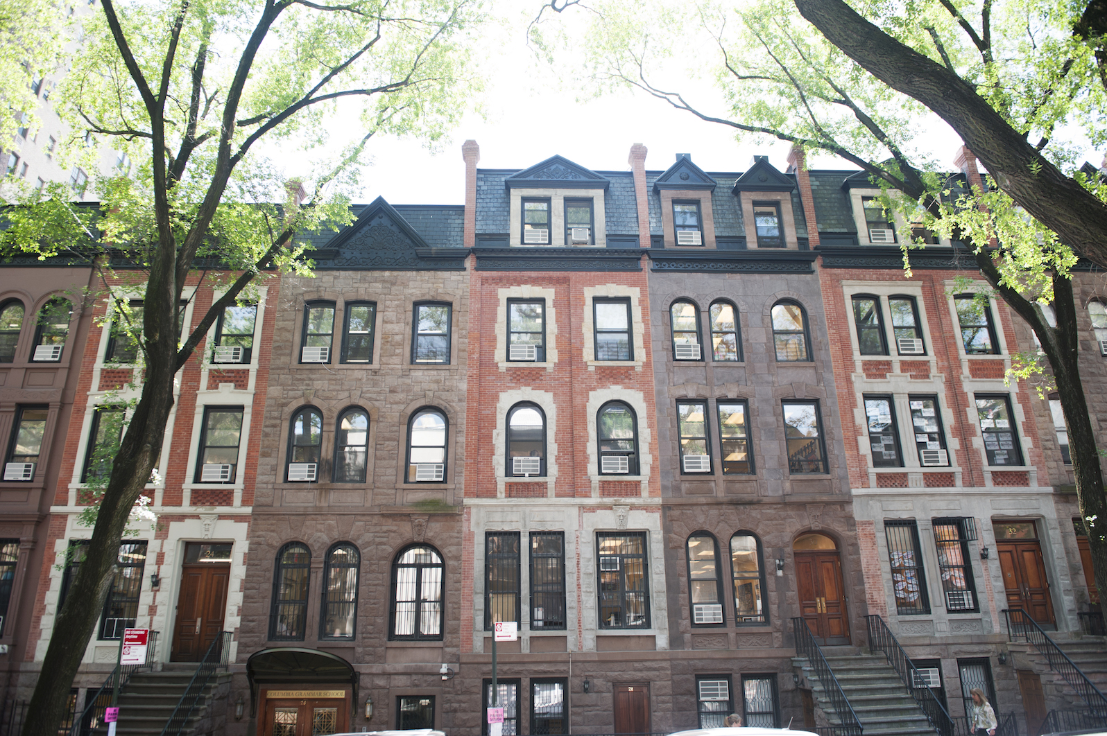 A view of the ten brownstones on West 94th Street that make up part of Columbia Grammar & Prep School's Lower School.